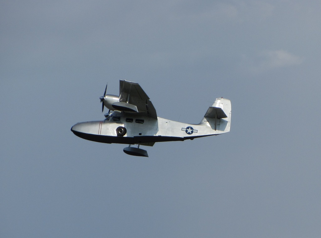 Grumman OA-14